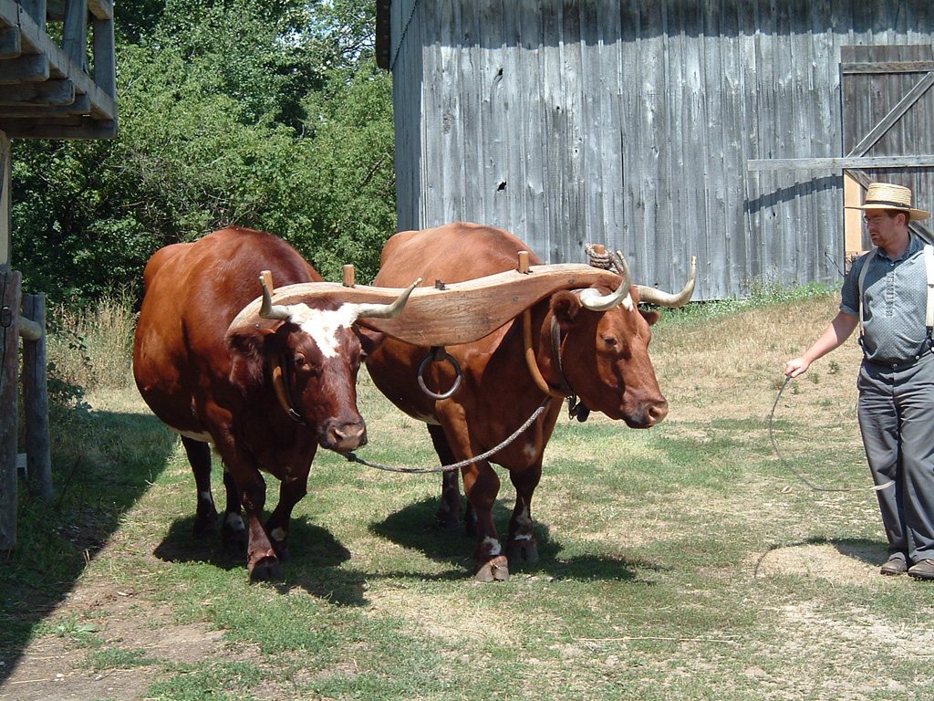 Yoked oxen at Old World Wisconsin. They finally got them yoked up to work.